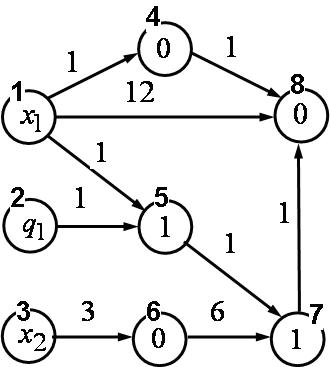 Graph1_reduced